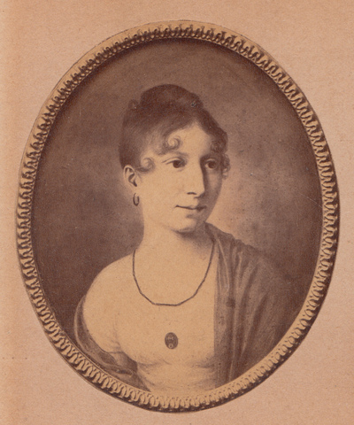 Petra Ottilia Marstrand, wife of Nicolai Jacob Marstrand